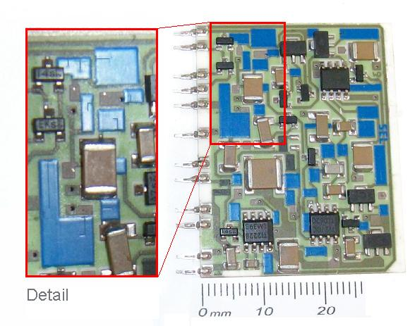 laser trimmed resistors on a thick film circuit